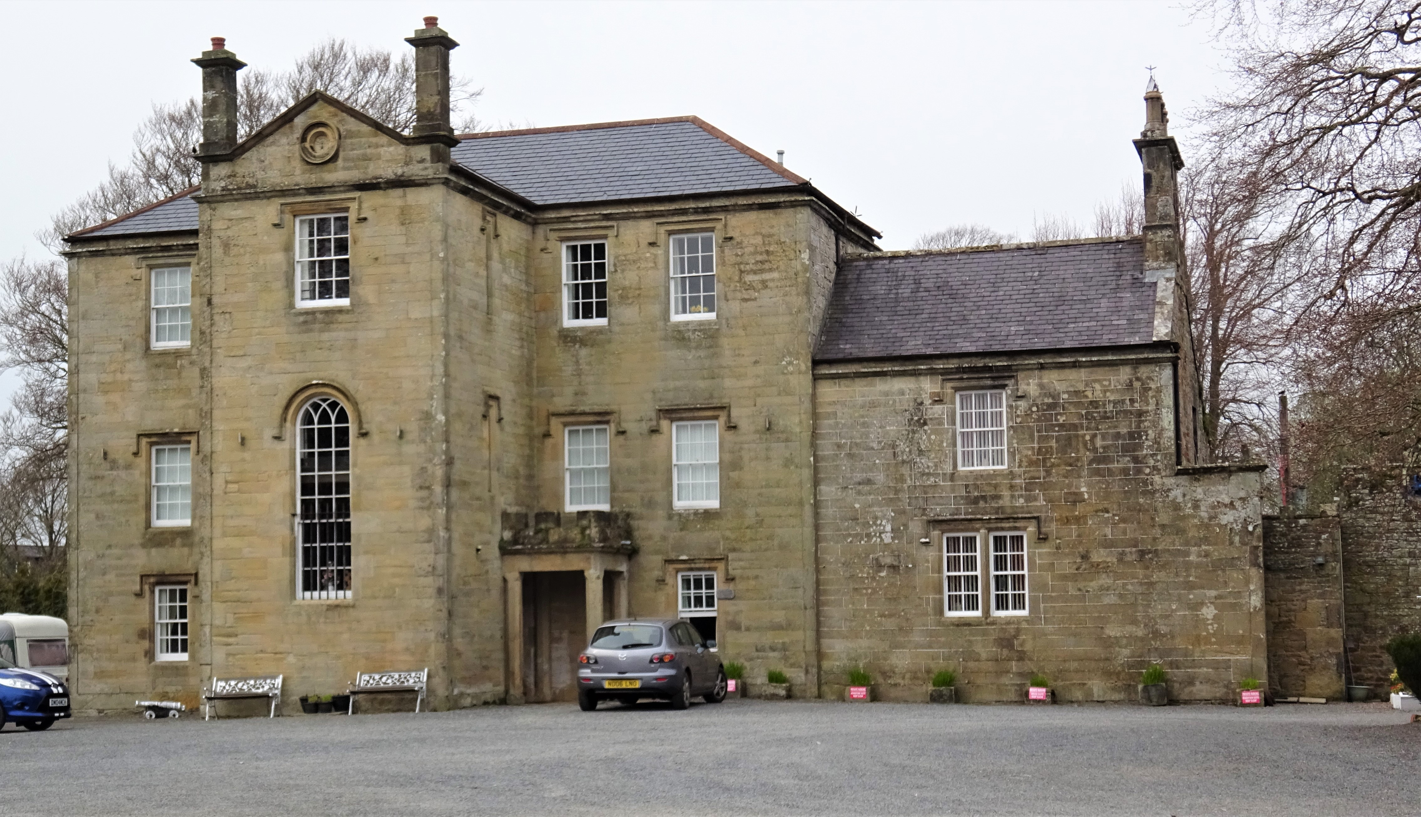 Cove House, Kirkpatrick-Fleming. Site of Bruce's Cave. Scotland.